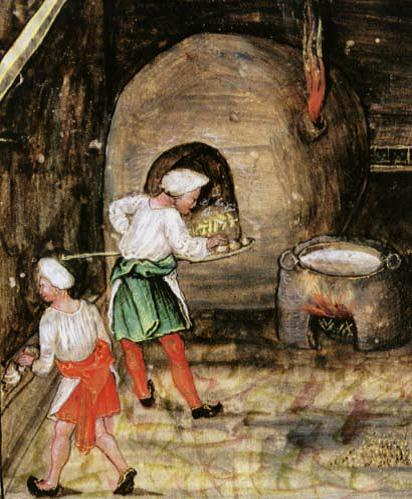 Kraków bakers at work. Detail of a miniature from the Balthasar Behem Codex (1505)